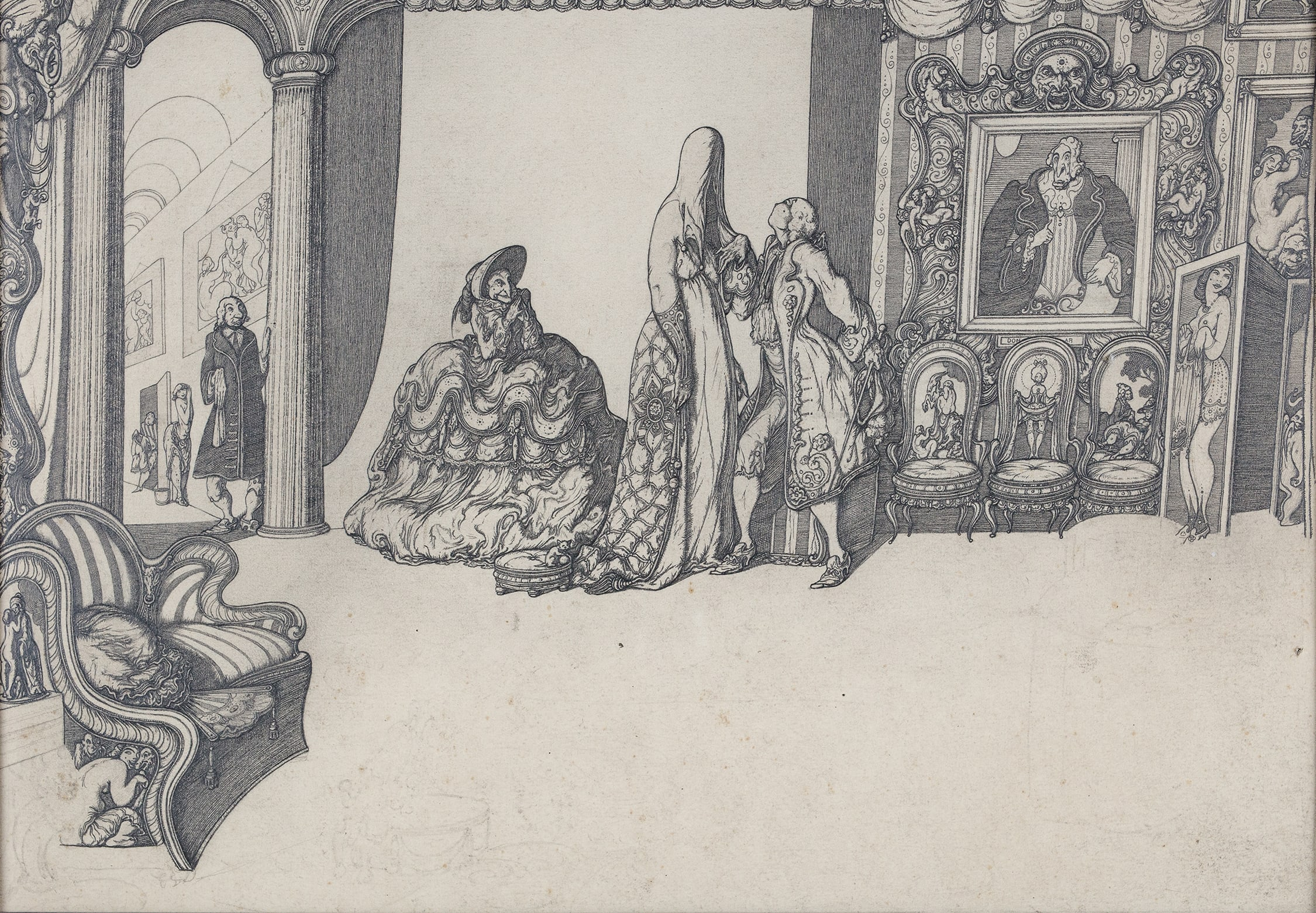 Study for Voltaire’s ‘Candide’. Pencil related to Odle’s illustrations for Voltaire’s ‘Candide’, published 1922. Ex. Collection: Victor Arwas. 12x17.25 inches. Offered for sale by Abbott and Holder in September 2019.